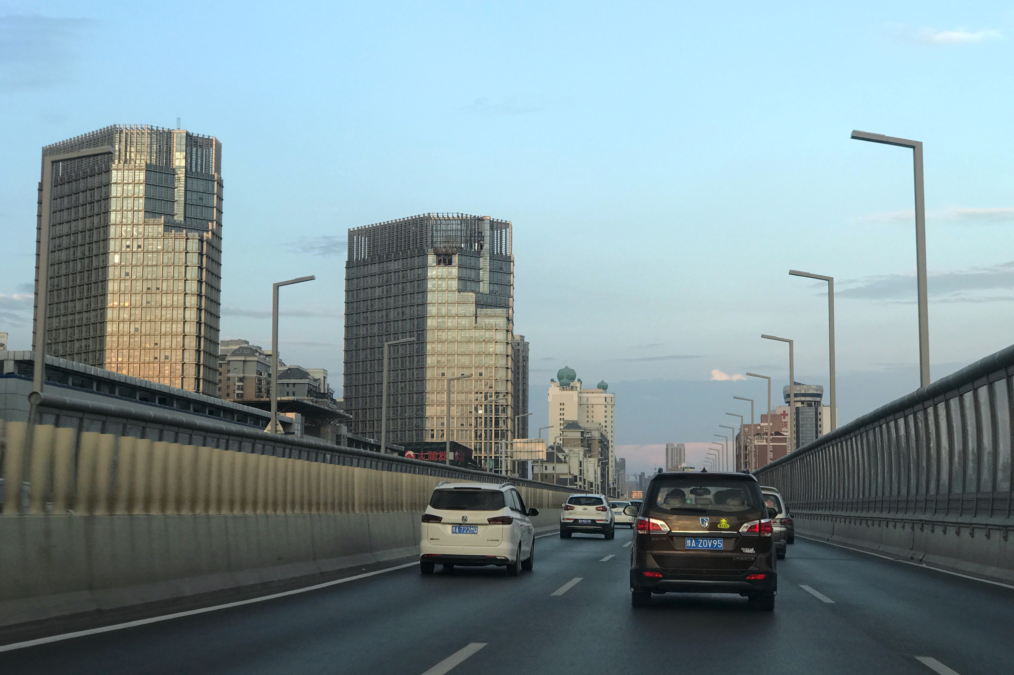 Longhai Expressway near Zijingshan Road exit